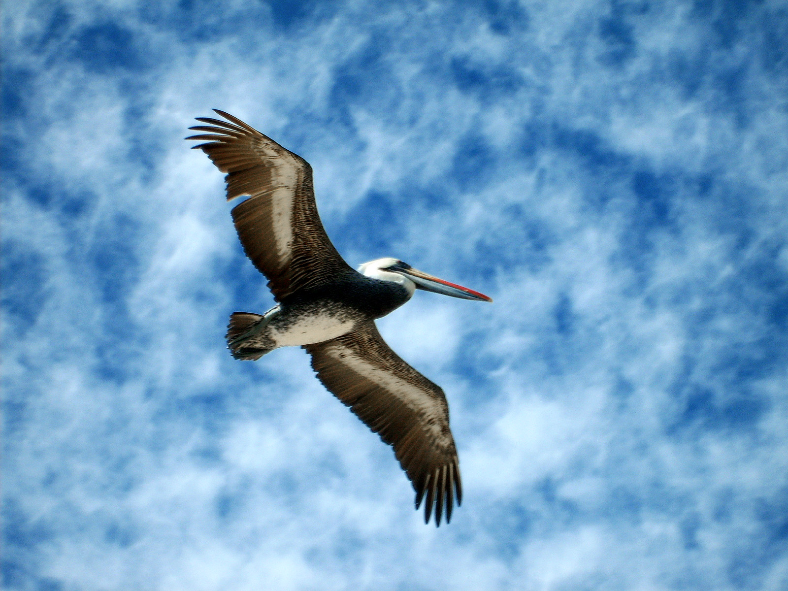 Pelican in flight. El Quisco, Chile.